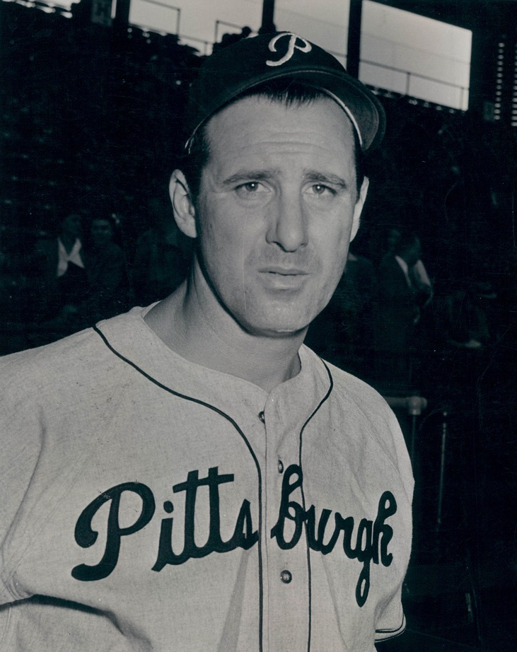 Hank Greenberg in his Pittsburgh Pirates uniform during the 1947 season.